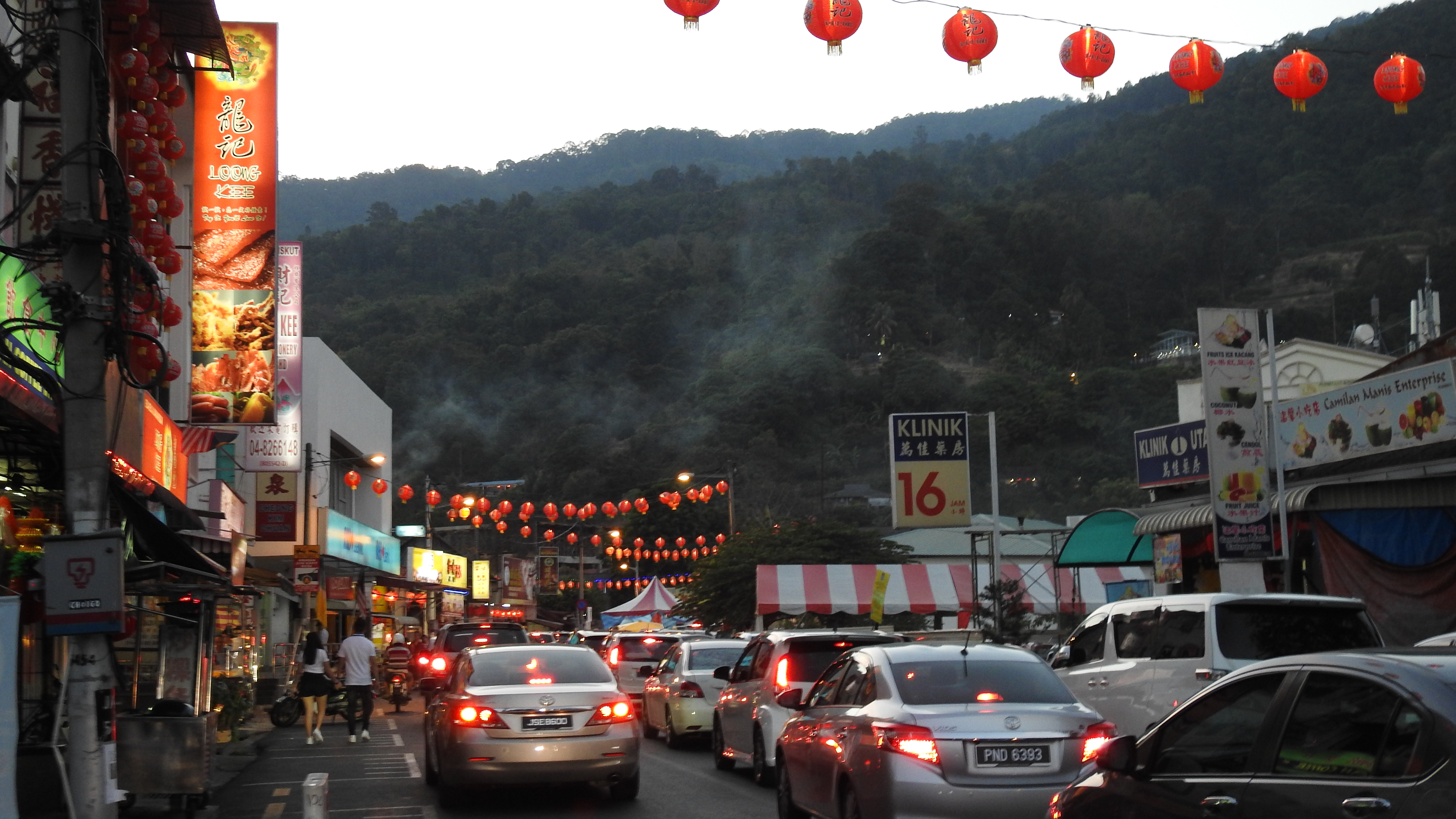 Street in Happy Valley, George Town, Penang of Malaysia.